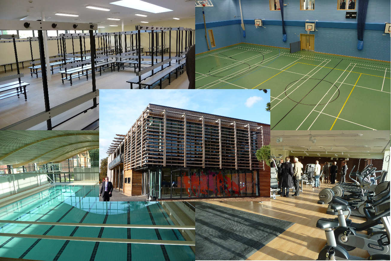 A collage of one of the changing rooms, the sports hall, the gym, the swimming pool and the exterior of the new (opened 2008-10-04) Abingdon School Sports Centre. Photos taken by SGBailey on 2008-10-03 during a reception prior to the opening ceremony. Collaged with PaintShopPro. (Does not include squash courts, climbing wall or fencing salon) -- User:SGBaileySGBailey (User talk:SGBaileytalk) 21:32, 4 October 2008 (UTC)